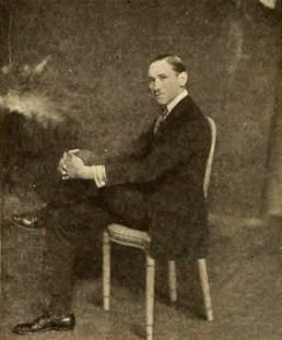 American film producer Jack White on page 1666 of the August 23, 1919 Motion Picture News.